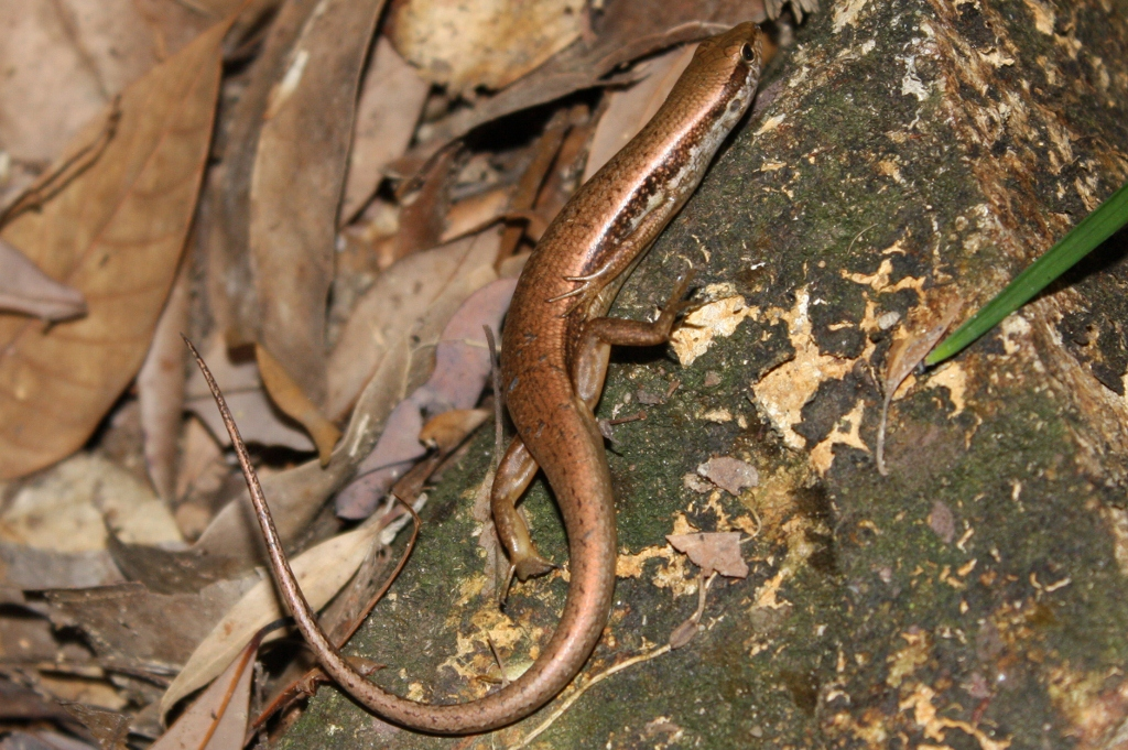 Indian Forest Skink, Sphenomorphus indicus. Taken in Tai Po Kau.